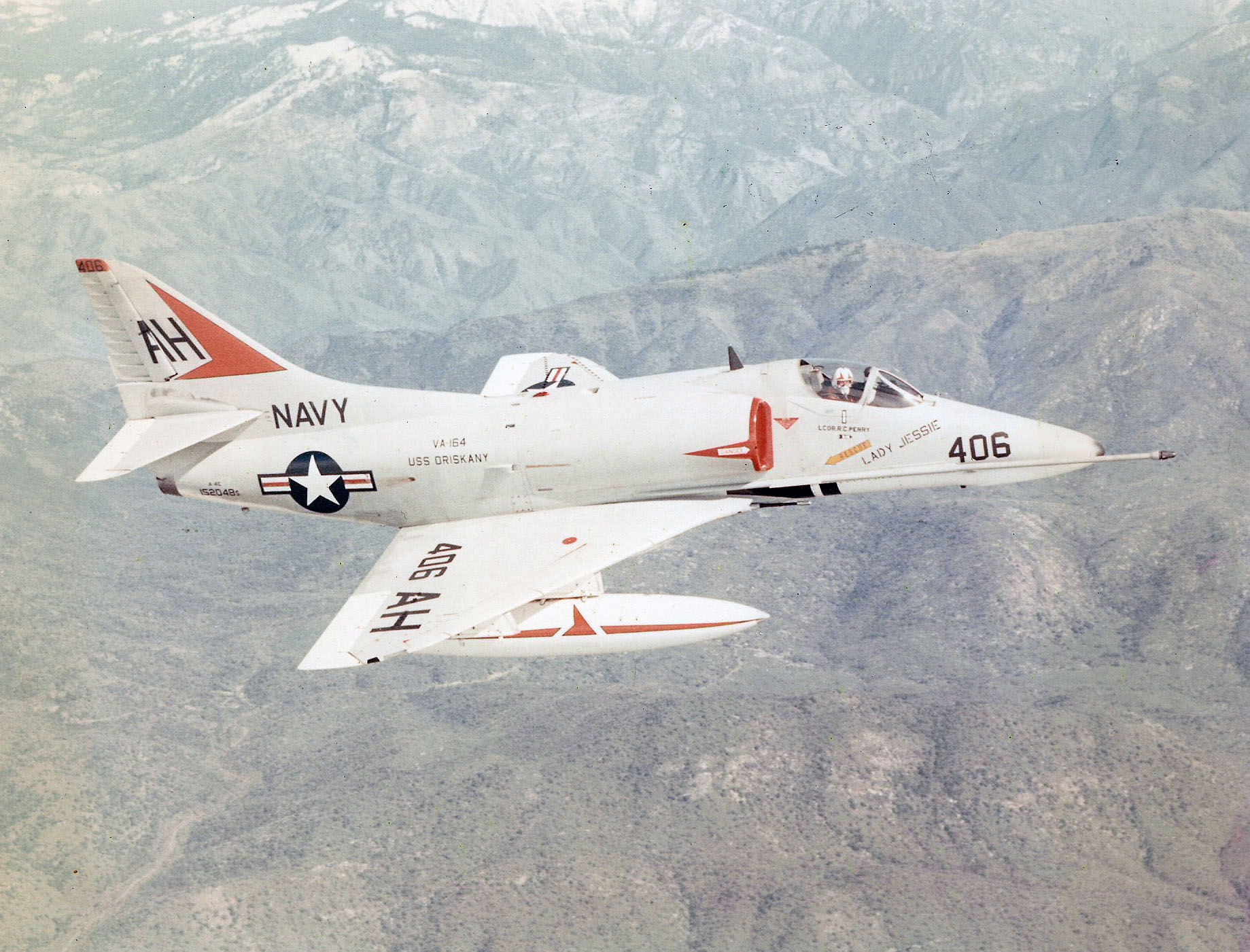 A U.S. Navy Douglas A-4E Skyhawk (BuNo 152048, "Lady Jessie", pilot LCdr. R.C. Perry) from Attack Squadron VA-164 "Ghost Riders" in flight. VA-164 was assigned to Carrier Air Wing 16 (CVW-16) aboard the aircraft carrier USS Oriskany (CVA-34) for a deployment to Vietnam from 26 May to 16 November 1966. LCdr. Perry was shot down and killed by a SAM on 31 October 1967 while flying A-4E 151991 (side number AH-407). The A-4E 152048 was shot down by ground fire over North Vietnam on 18 October 1967 while in service with VA-164. The pilot LCdr. Barr was also killed.